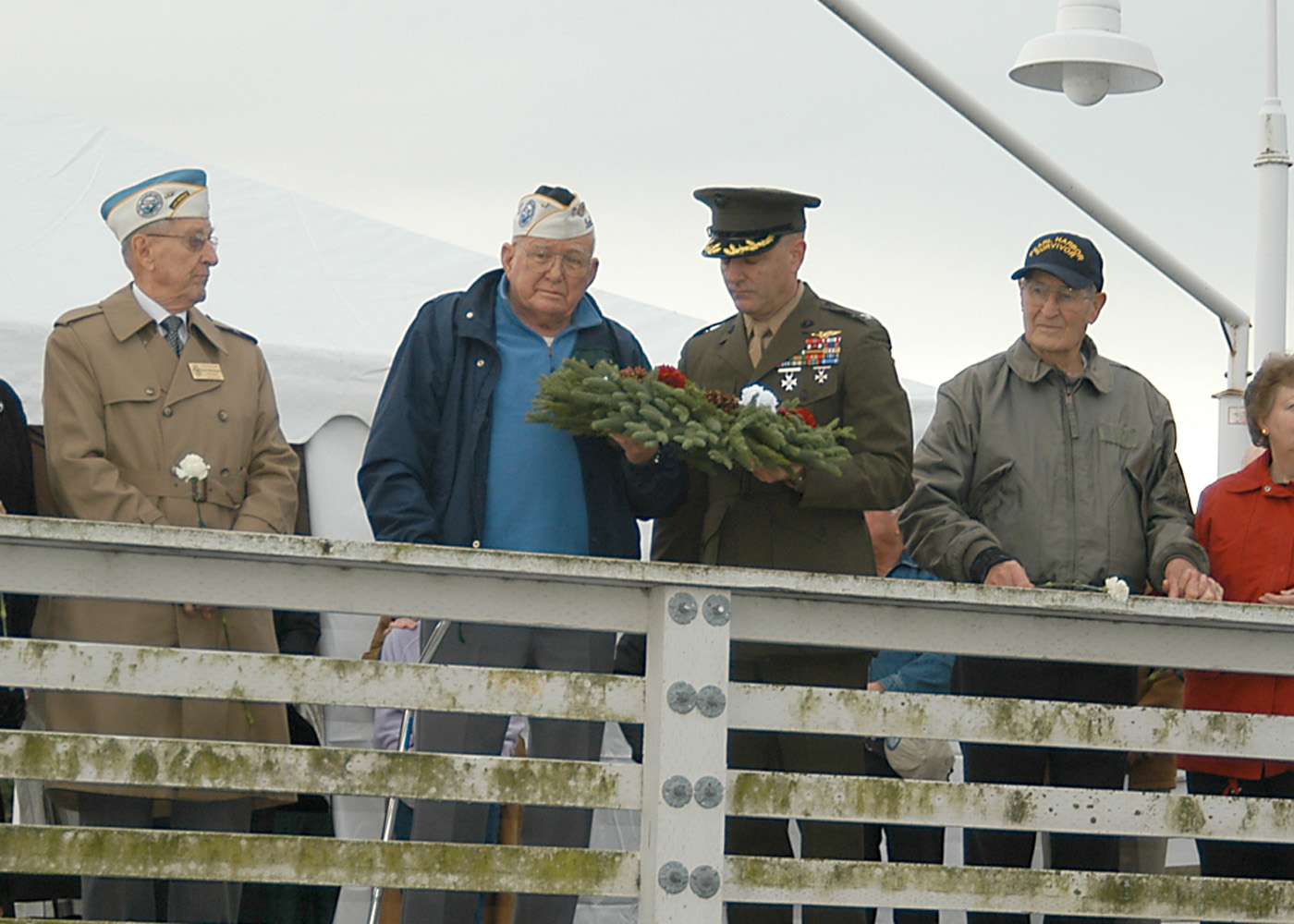 Whidbey Island, Wash. (Dec 7, 2006) - (from left) Jerry Wachsmuth, Jim Stansell, Col. William Flannery, commanding officer of Marine Aviation Training Support, Group Fifty-Three and Jim Vyskocic prepare to honor fallen heroes by laying a wreath into the water. Mr. Watchsmuth, Stansell and Vyskocic are members of the Pearl Harbor Survivors Association, Chapter Five. The ceremony was held at Naval Air Station Whidbey Island's Marina.